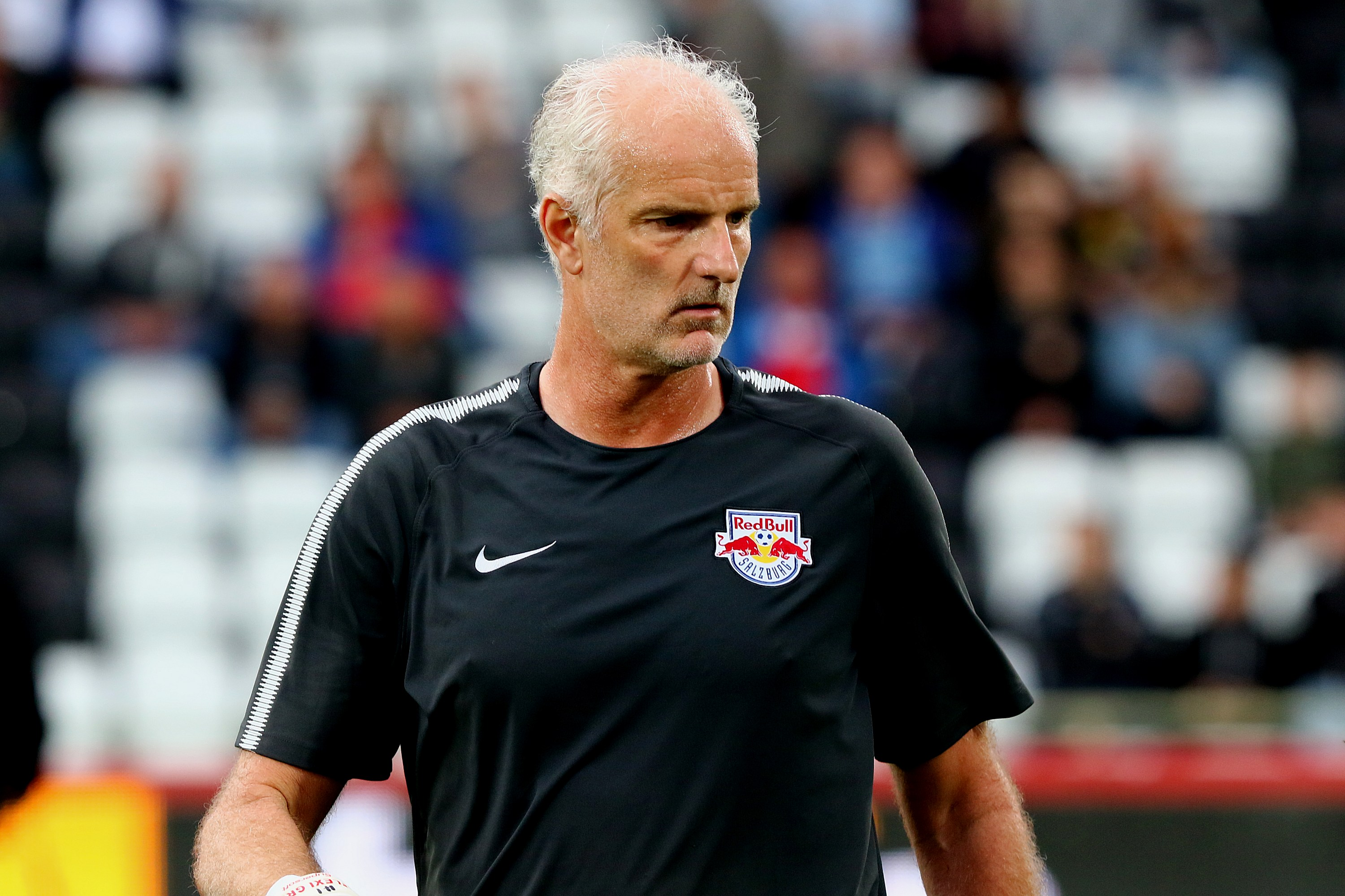 Championshipmatch of the Austrian Bundesliga 2017–18 FC Admira Wacker Mödling (red shirts) vs. FC Red Bull Salzburg (white shirts) 2-6 (1-3) at 2018-04-15 in the Bundesstadion Südstadt in Maria Enzersdorf. – The photo shows Herbert Ilsanker goalkeepercoach of FC Red Bull Salzburg).